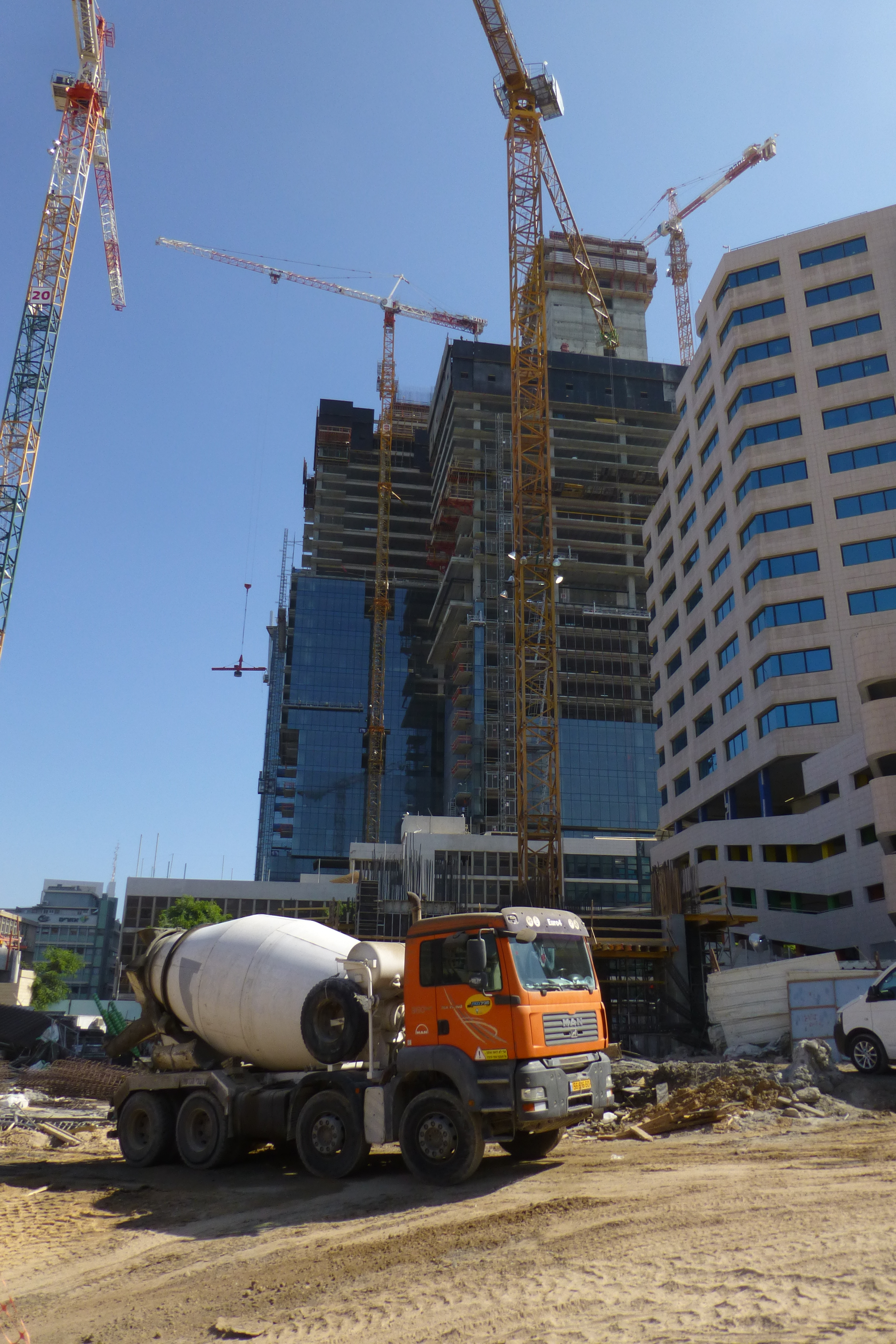 Begin Road, Tel Aviv-Yafo